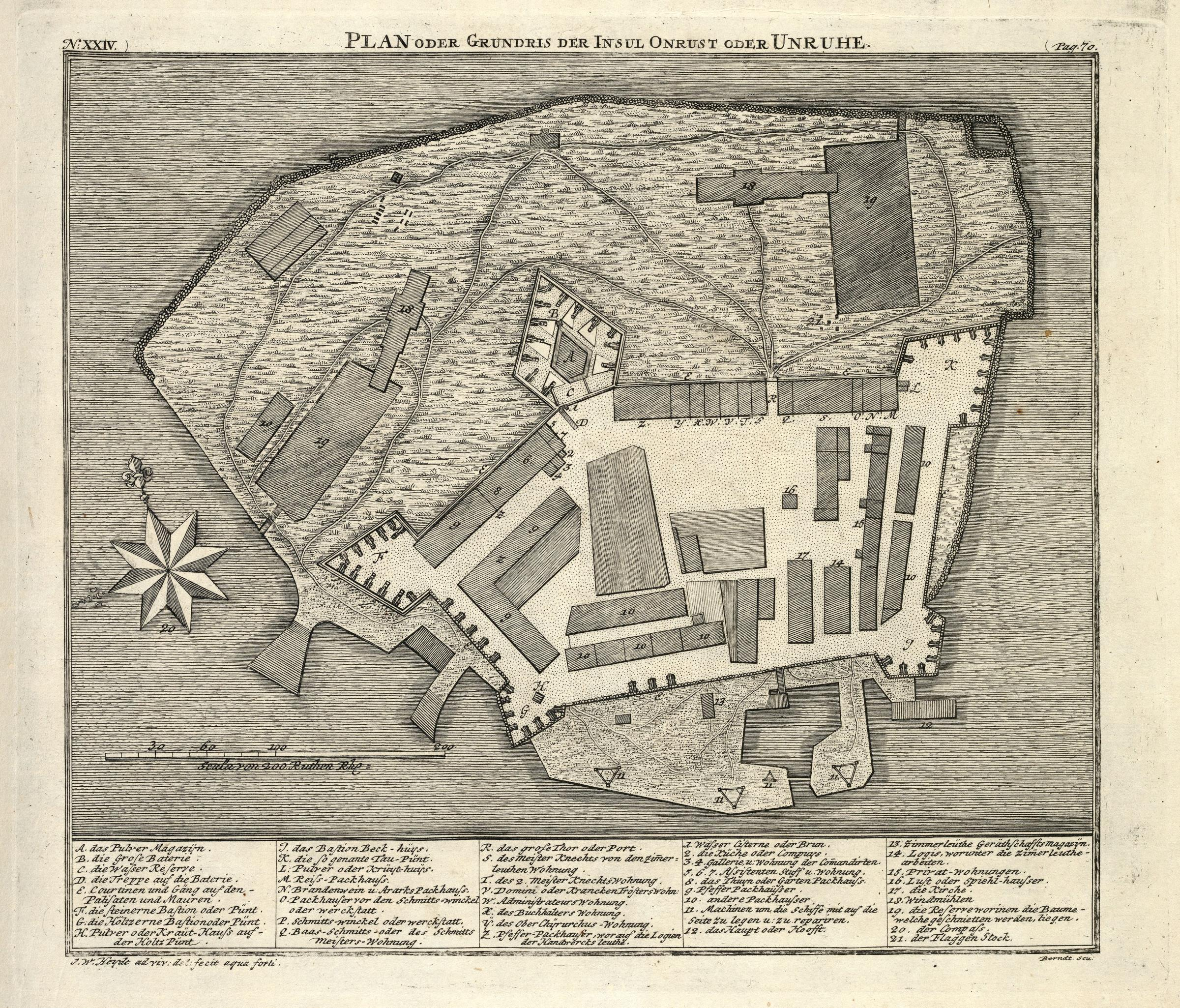 Map of the island of Onrust, off the coast of Batavia. Plan oder Grundris Der Insul Onrust oder Unruhe. Top left: N: XXIV. Top right: Pag. 70.. Key: A. das Pulver Magazijn. / B. die Grose Baterie. / C. die Wasser Reserve. / D. die Treppe auf die Baterie. / E. Courtinen und Gäng auf den Palisaten und Mauren. / F. die steinerne Bastion oder Pünt. / G. die Höltzerne Bastion oder Pünt. / H. Pulver oder Kraüt-Hauss auf der Holtz Pünt / I. das Bastion Beck-hüys. / K. die so genante Tau-Pünt. / L: Pulver oder Krüyt-huys. / M. Reiss-Packhauss. / N. Brandenwein u: Ararks Packhauss. / O. Packhauser vor den Schmitts-winckel oder werckstatt. / Q. Baas-Schmitts oder des Schmitts Meisters-Wohnung. / R. das grose Thor oder Port. / S. des Meister Knechts von den Zimer-leuthen Wohnung. / T. des 2. Meister Knechts Wohnung. / V. Domini oder Krancken Trösters Wohn: / W. Administrateurs Wohnung. / X. des Buchhalters Wohnung. / Y. des Ober Chijrurchus-Wohnung. / Z. Pfeffer-Packhauser, worauf die Logien der Handwercks leuthe. / 1. Wasser cisterne oder Brun. / 2. die Küche oder Compuys. / 3. 4. Gallerie, u: Wohnung der Comandirten. / 5.6.7 Assistenten Stuff u: Wohnung. / 8. das Thuyn oder Garten Packhauss. / 9. Pfeffer Packhaüser. / 10. andere Packhausser. / 11. Machinen um die Schiffe mit auf die Seite zu legen u: zu repariren. / 12. das Haupt oder Hoofft. / 13. Zimmerleüthe Geräthaschafftsmagazijn. / 14. Logis, worunter die Zimerleuthe arbeiten. / 15. Privat-wohnungen. / 16. Lust oder Spiehl-hauser. / 17. die Kirche. / 18. Windmühlen. / 19. die Reserve worinen die Baume-welche geschnietten werden, liegen. / 20. der Compass. / 21. der Flaggen Stock.